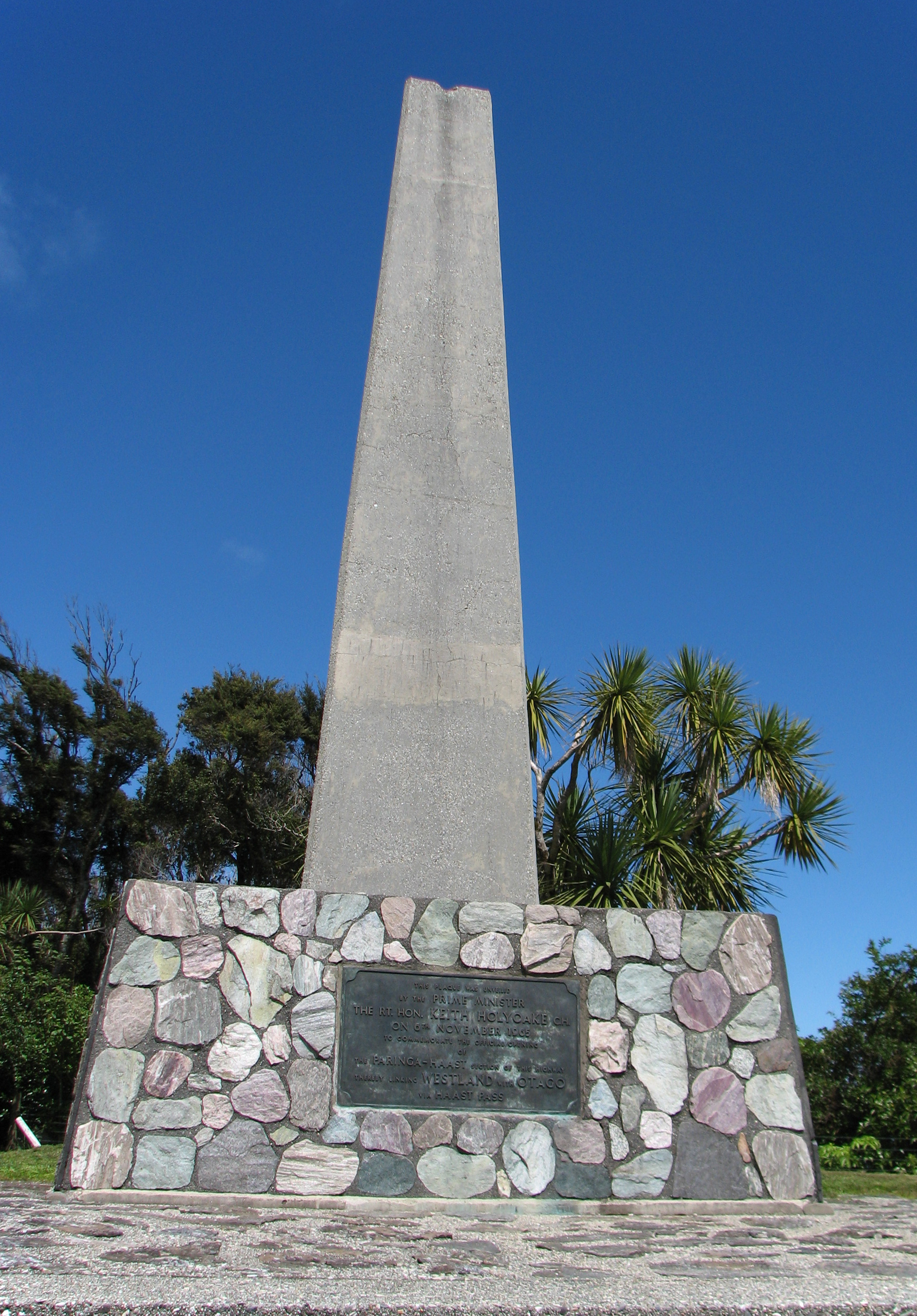 The monument at Knight's Point, New Zealand. The Plaque says: “This plaque was unveiled by the prime minister the rt. hon. Keith Holyoake C.H. on 6th. November 1965 to commemorate the official opening of the Paringa–Haast section of this highway thereby linking Westland with Otago via Haast Pass.”